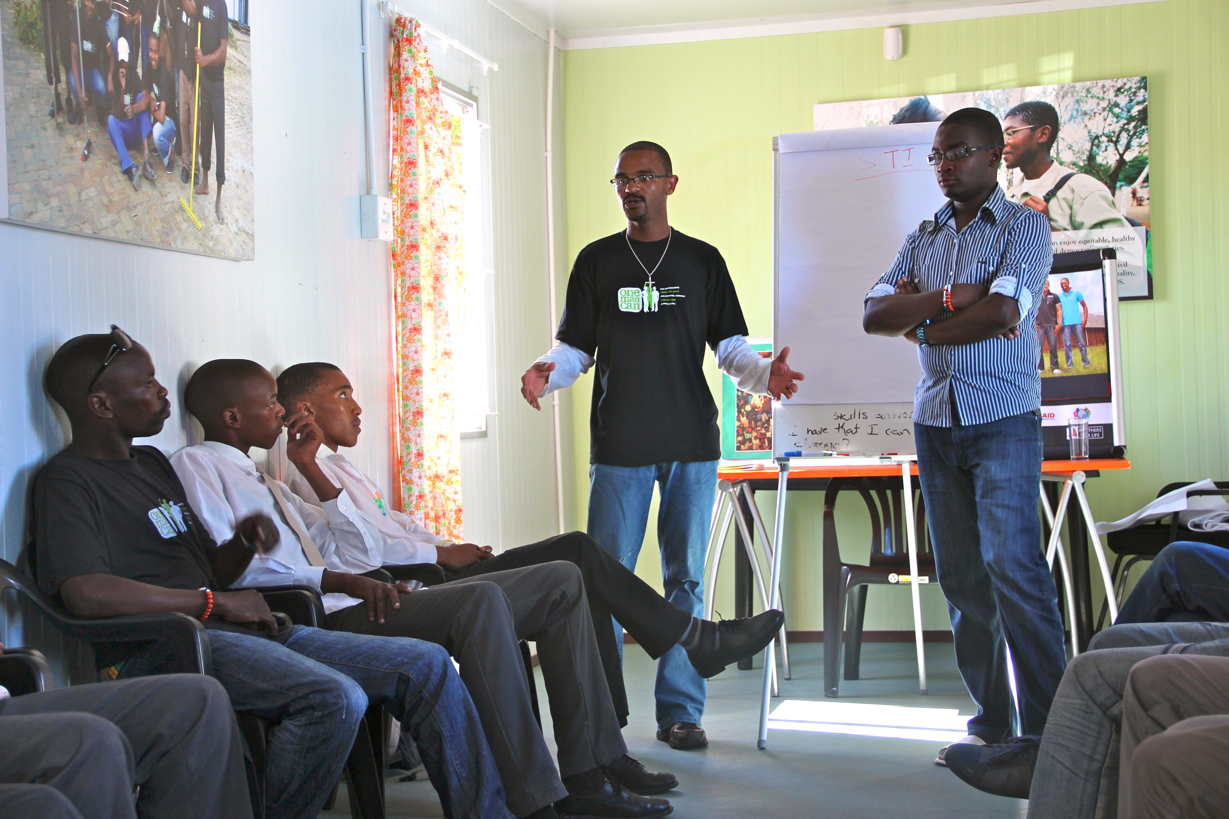 UK aid is supporting the Sonke Gender Justice programme in South Africa to run 227 men and boys groups on transforming attitudes to girls and women, to tackle the root causes of violence in and out of prison. “Having the support of Sonke outside the prison, assisted me to build that character, to build that confidence, so that I’m moving on from a point of having the theory of the One Man Can programme but also implementing that in my life on a daily basis.”, says Welcome, a former gang member who now champions womens' rights. Background In March 2013 the United Nation's Commission on the Status of Women will meet to discuss how to prevent all forms of violence against women and girls. This International Women's Day, help demand action by sending a message to global leaders that it's time to put a stop to this worldwide injustice. UK aid is working in 21 countries to address physical and sexual violence against women and girls and will be supporting 10 million women and girls with improved access to security and justice services by 2015. Find out more at For more information about the Sonke Gender Justice programme visit .za/ Picture: Lindsay Mgbor/Department for International Development Terms of use This image is posted under a Creative Commons - Attribution Licence, in accordance with the Open Government Licence. You are free to embed, download or otherwise re-use it, as long as you credit the source as Lindsay Mgbor/Department for International Development'.